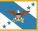 The flag was approved by the Secretary of Defense on 20 January 1987. The background is white with a diagonal medium blue stripe from upper hoist to lower fly. Centered on the flag is an American bald eagle with wings spread horizontally, in proper colors. The talons grasp three crossed arrows. A shield with blue chief and 13 red and white stripes is on the eagle’s breast. Diagonally, from upper fly to lower hoist are four five-pointed stars, medium blue on the white, two above the eagle, and two below. The fringe is yellow. Cord and tassels are medium blue and white.